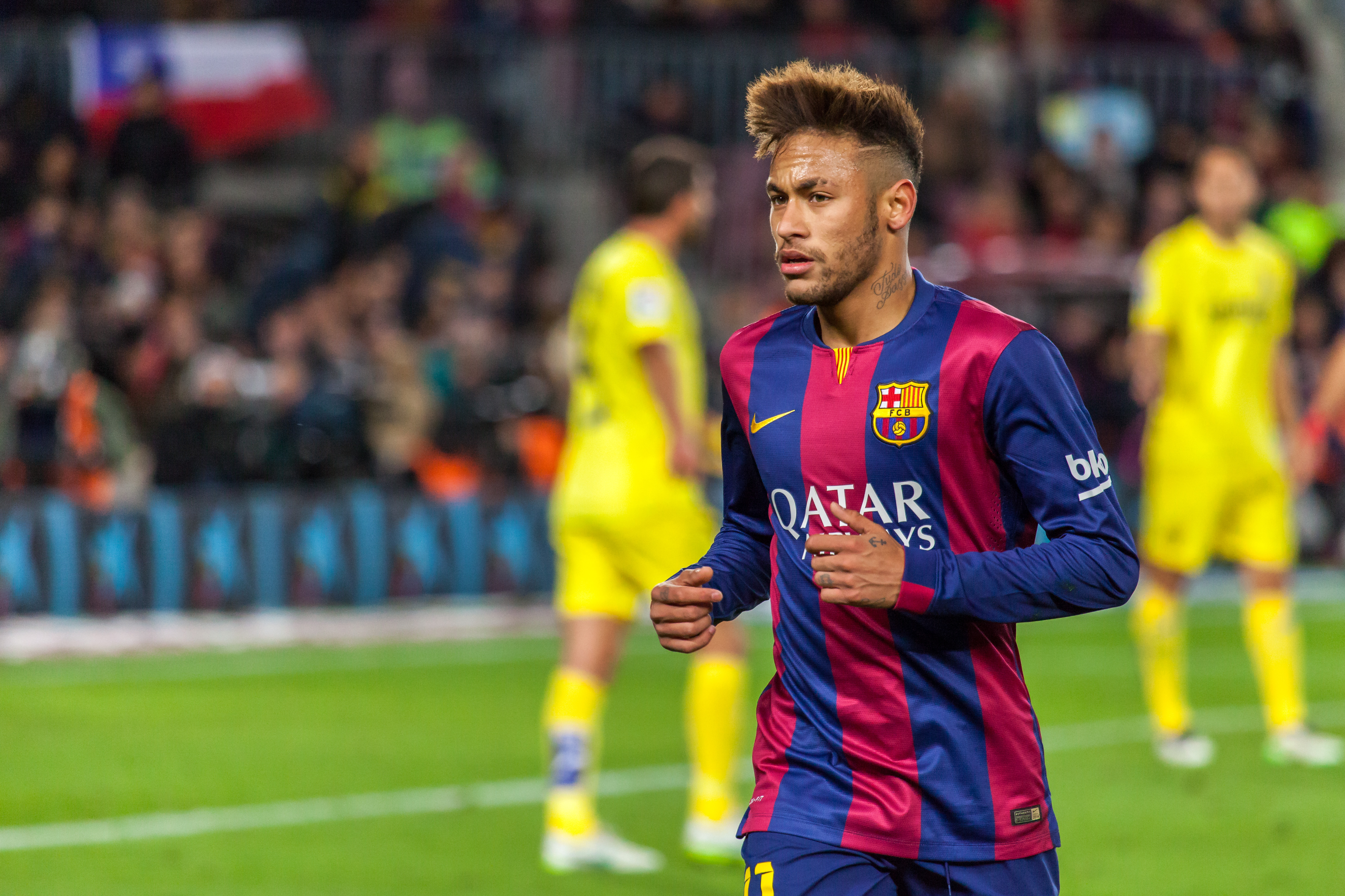 Neymar playing for Barcelona against Villarreal in La Liga, 1 February 2015. Neymar opened the scoring for Barcelona in their 3–2 win.